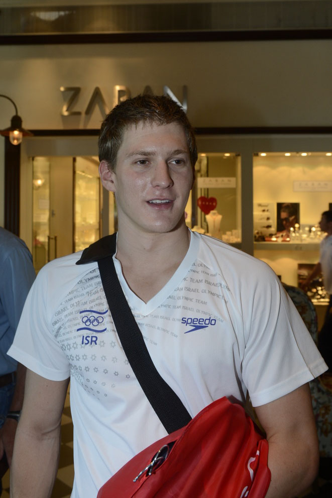 Imri Ganiel, 2012